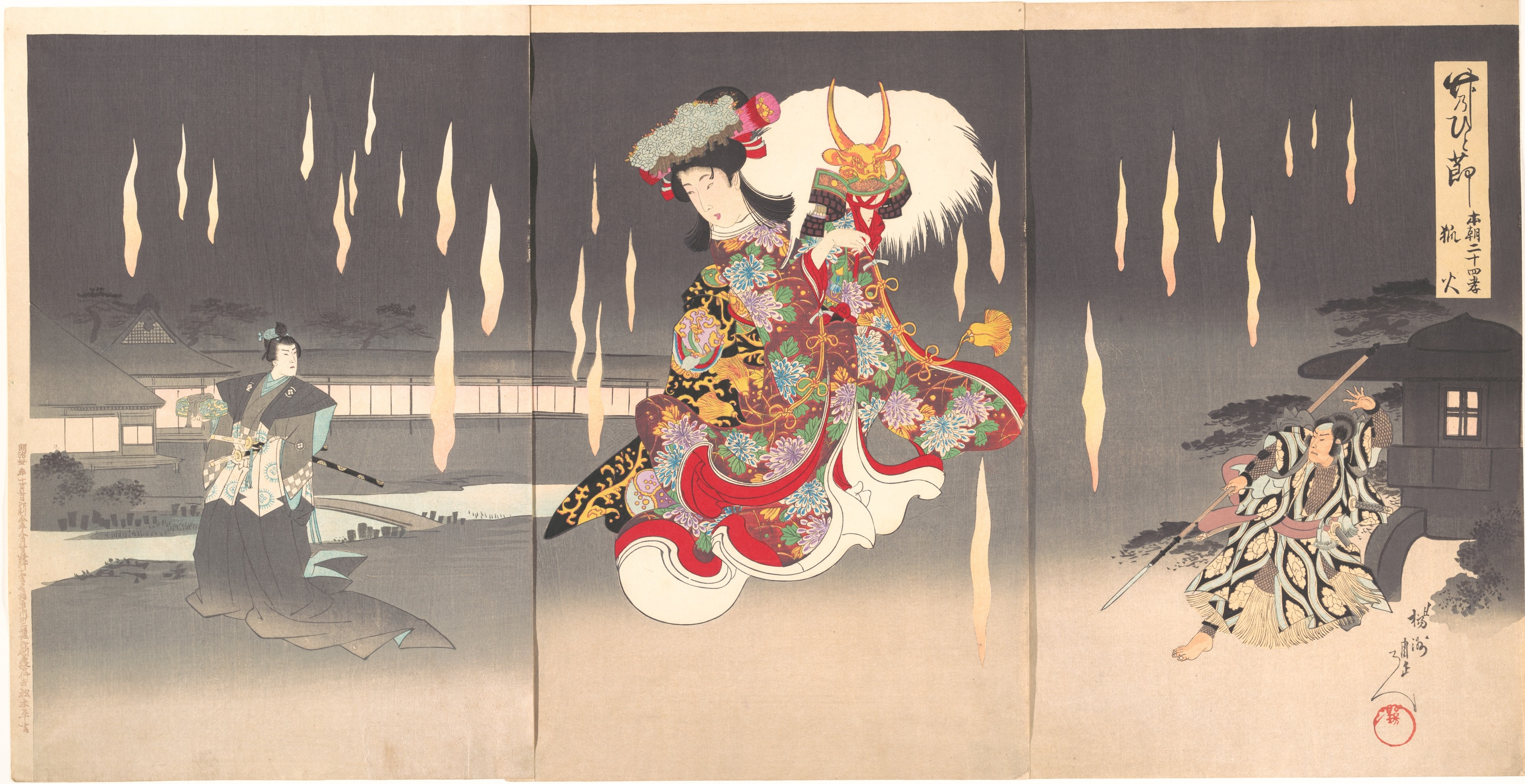 Chikanobu Toyohara, Foxfires, 1898. Triptych from the Bamboo Knots (Take no Hitofushi) series. The print depicts Yaegaki-hime carrying the helmet of the warrior Shingen as she dances amidst magical foxfires, Woodblock print